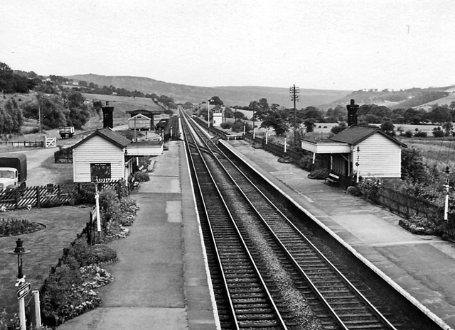 Bamford Station. View eastwards towards Sheffield; Manchester - Chinley - Dore & Totley - Sheffield main line.